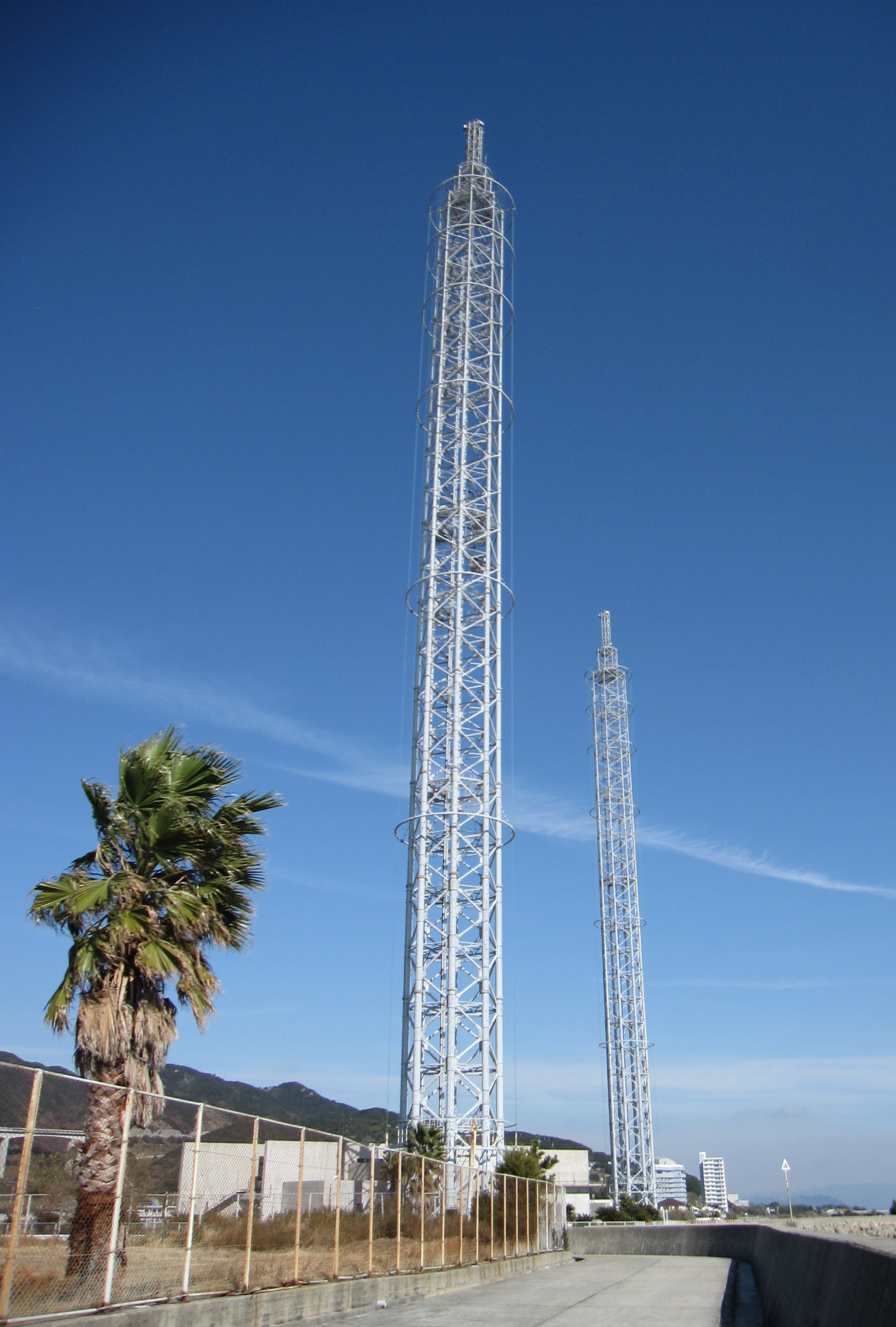 CRK Awaji Radio Transmitting Station (JOCR 558kHz 20kW)